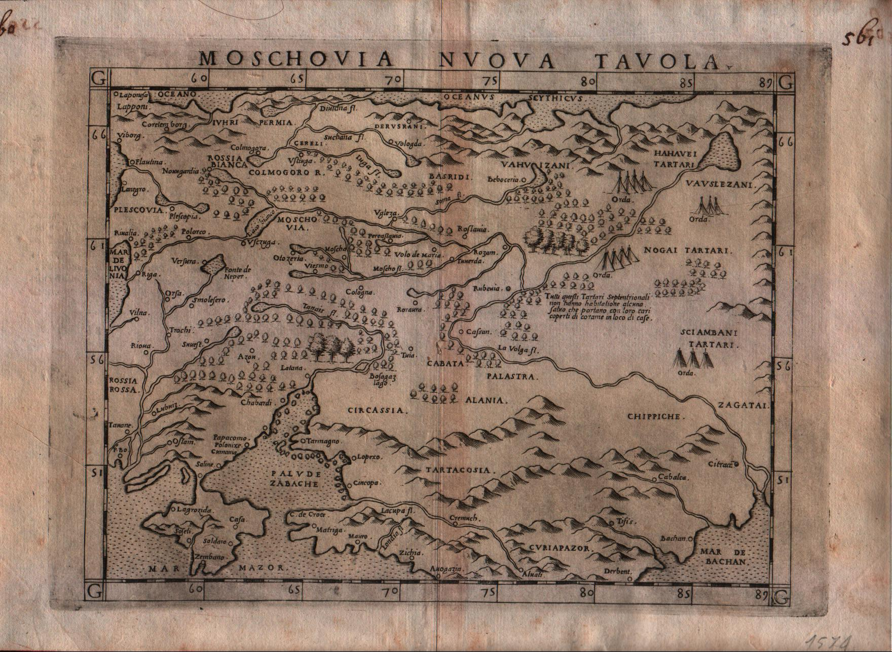 Gastaldi's map is among the earliest modern maps of the region. Based upon the 1546 map of Sigmund Herberstein, it extends further to the north than the Herberstein map. •Barry Lawrence Ruderman•